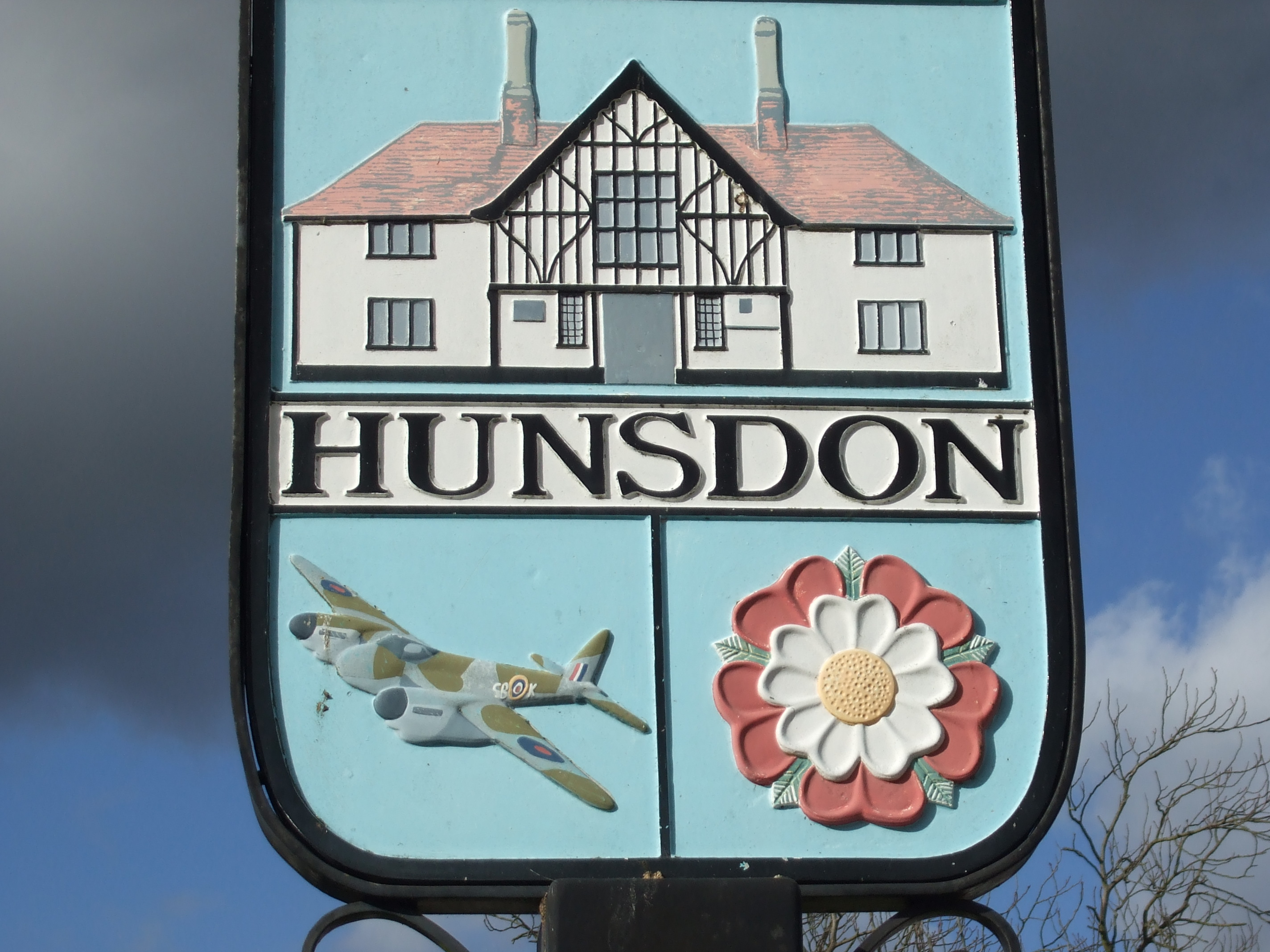 Hunsdon village sign in centre of village showing RAF Mosquito aircraft